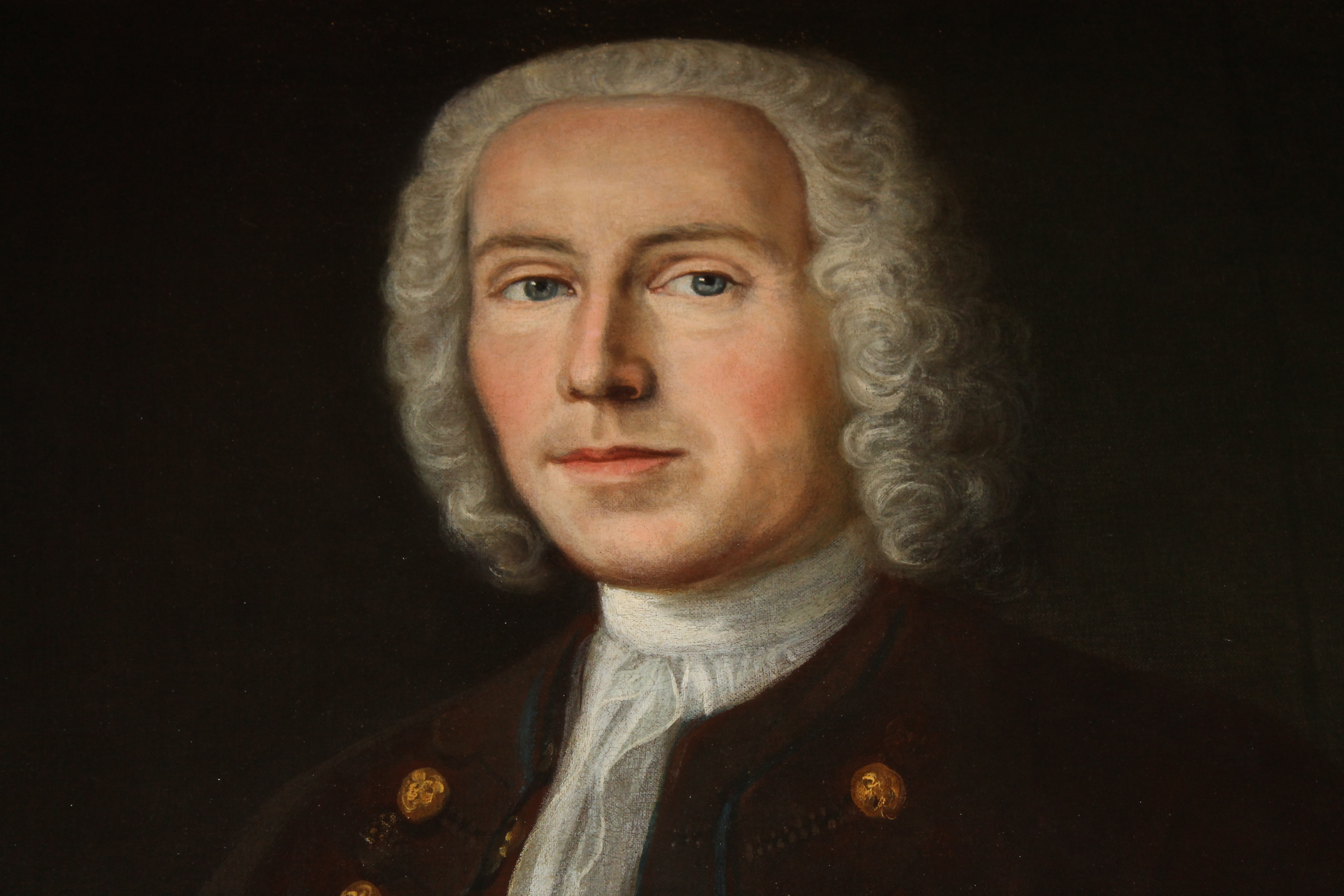 Painting of Thomas Hutchinson hanging in the Old State House Museum in Boston